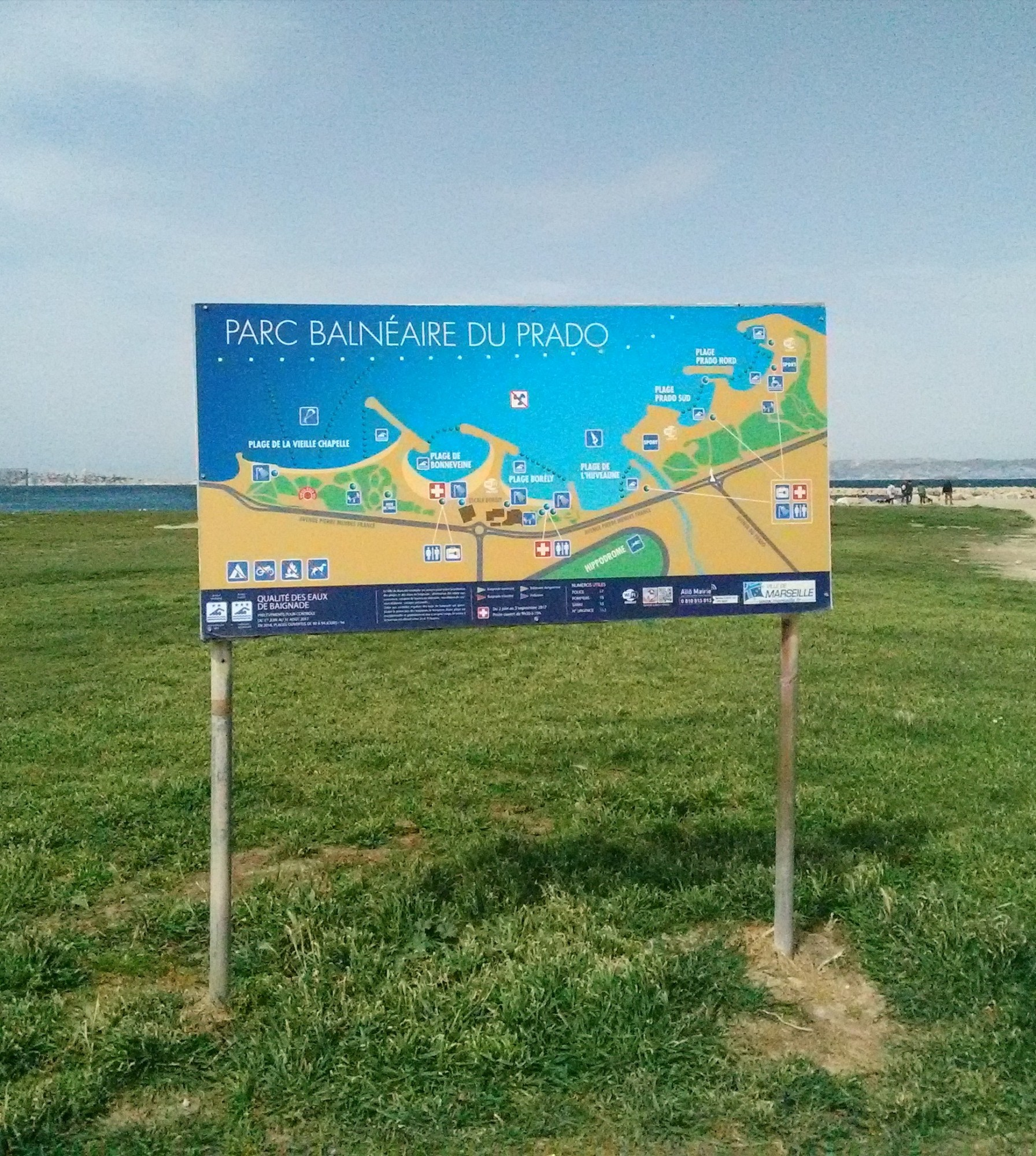 Parc balnéaire du Prado - Marseille